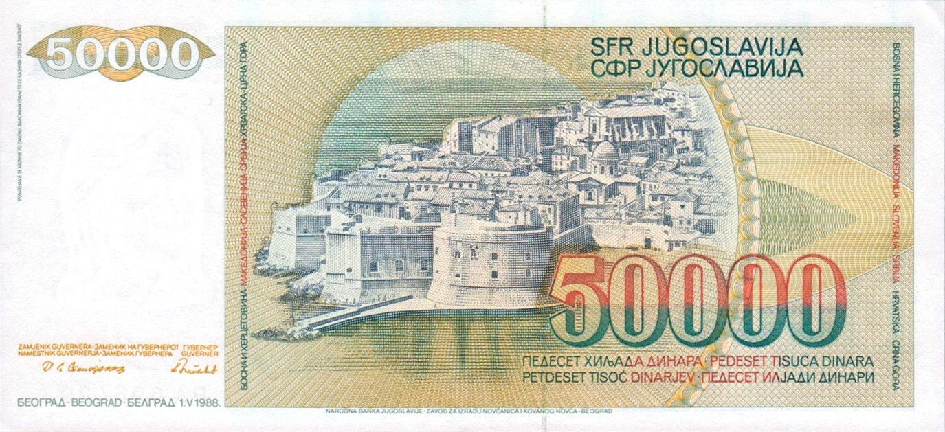 50000 Yugoslav dinars (1988)